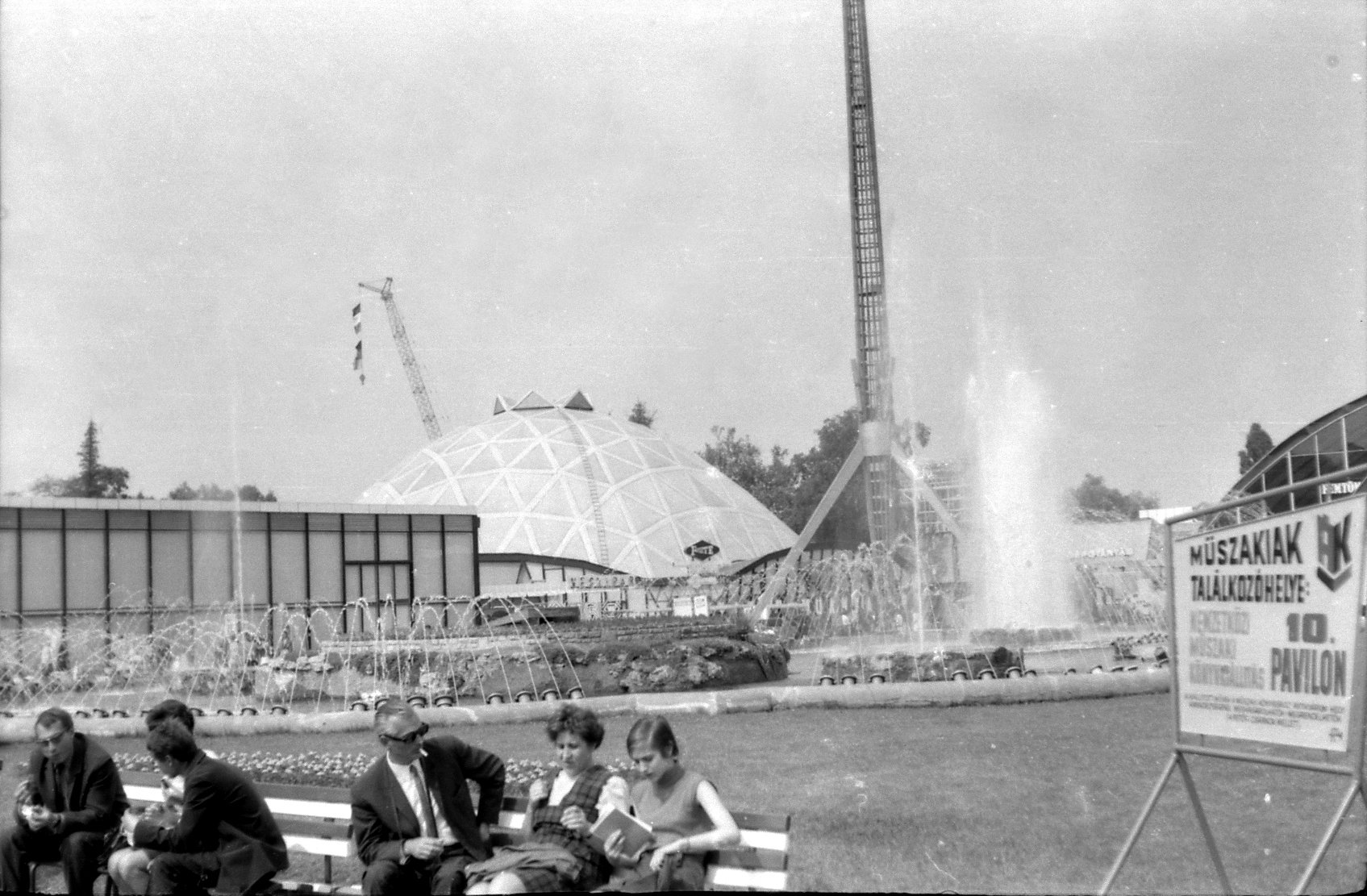 Budapest International Fair, 1969